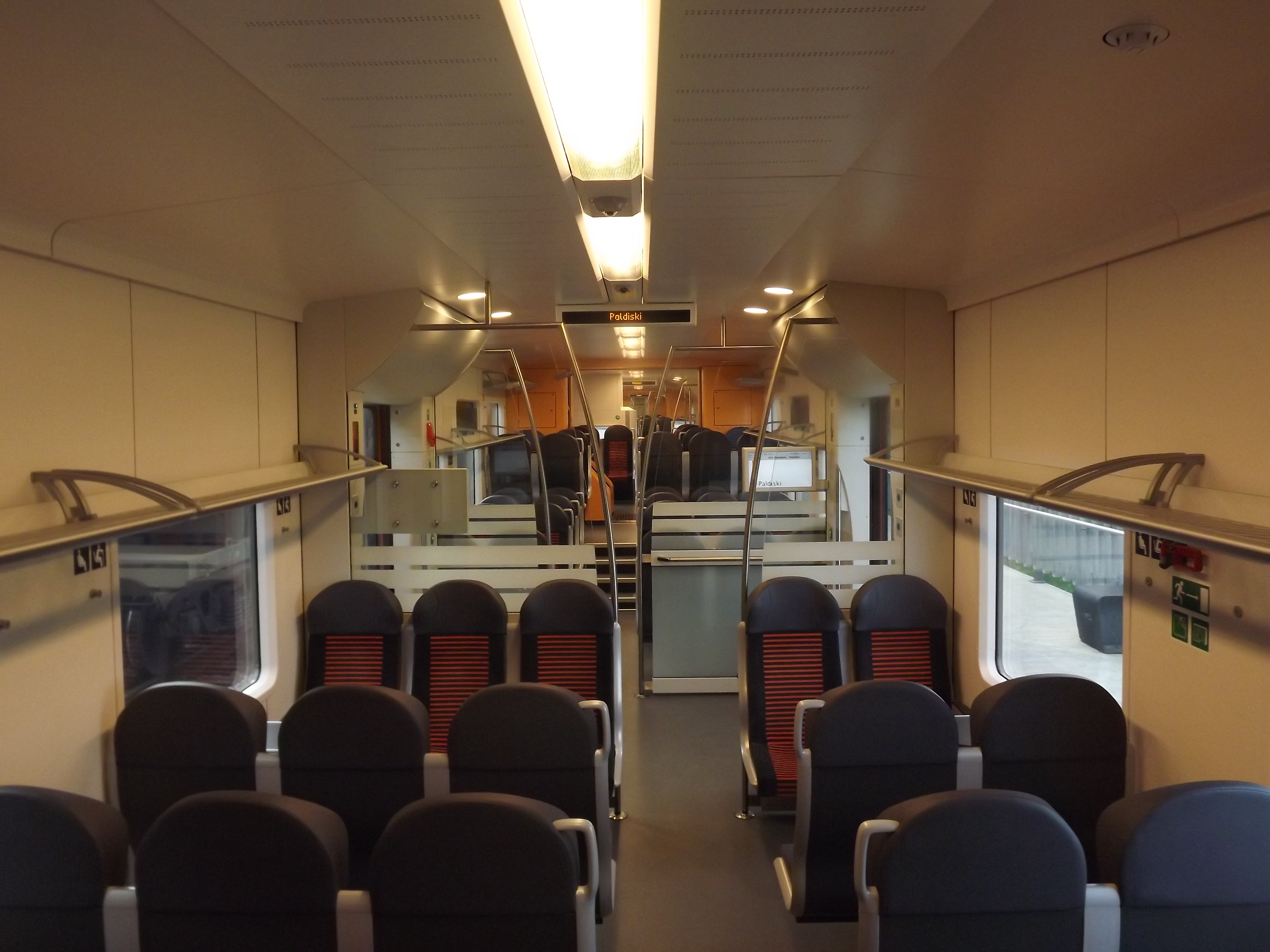 Stadler FLIRT EMU (1309 "Berta") interior